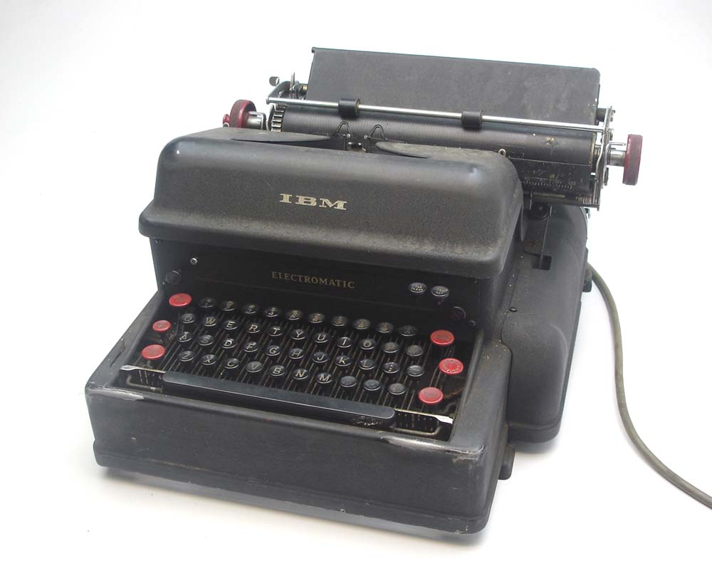 I hope it helps. A IBM typewriters.